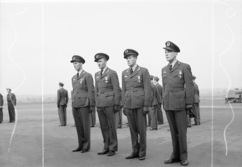 IWM caption : Four Norwegian fighter pilots standing to attention following the presentation of awards to each by Air Chief Marshal Sir Trafford Leigh-Mallory, Commander-in-Chief of the Allied Expeditionary Air Force, at North Weald, Essex. They are (left to right): Lieutenant-Colonel K Birksted, Commander of the Norwegian Wing, presented with the DSO Major A Austeen, Commanding Officer of No. 331 (Norwegian) Squadron RAF, presented with the DFC Major W Christie, Commanding Officer of No. 332 (Norwegian) Squadron RAF, presented with the DFC Captain N K Jorstad, flight commander of No. 331 (Norwegian) Squadron RAF, presented with the DFC